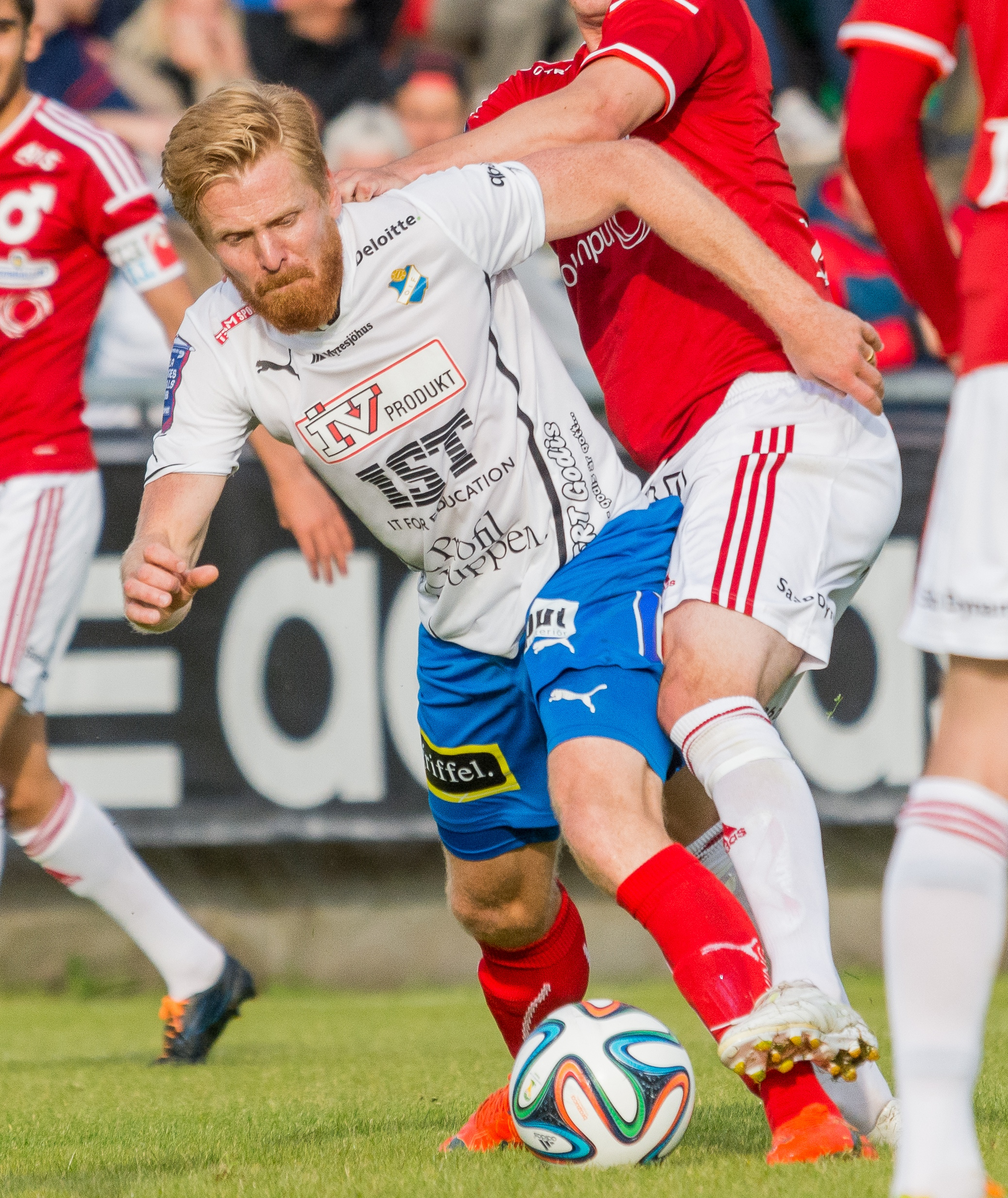 Swedish football midfielder Josef Elvby playing for his Östers IF against Degerfors IF in Superettan 2014.